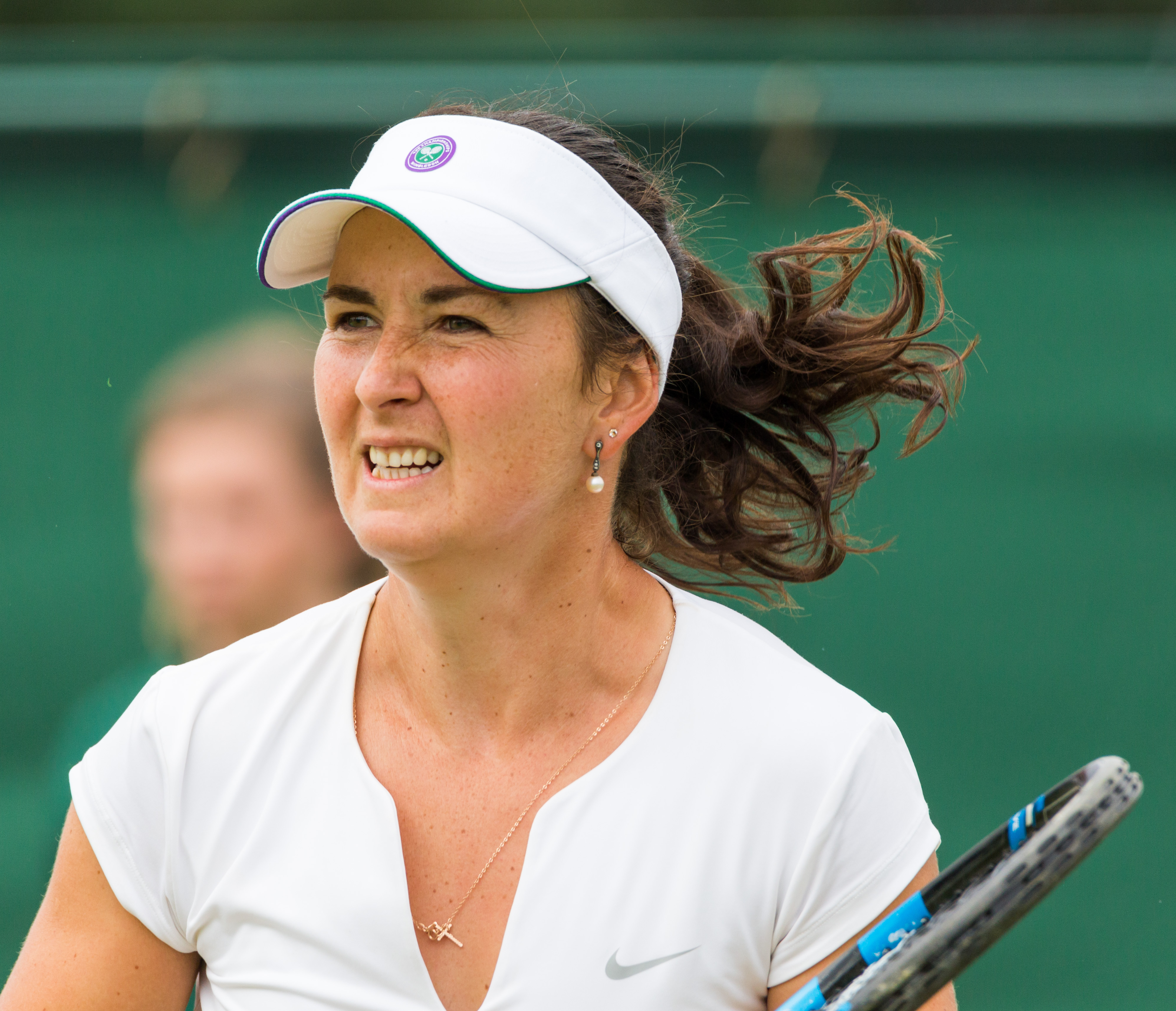 Yuliya Beygelzimer competing in the first round of the 2015 Wimbledon Qualifying Tournament at the Bank of England Sports Grounds in Roehampton, England. The winners of three rounds of competition qualify for the main draw of Wimbledon the following week.